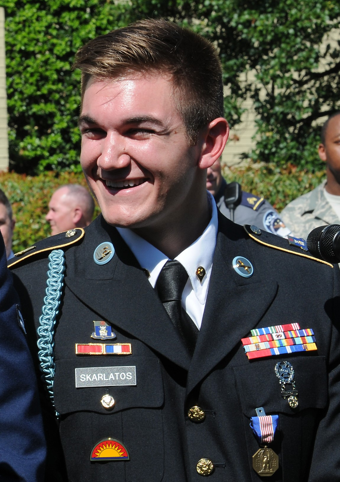 Defense Secretary Ash Carter awards the Soldier's Medal to Spc. Alek Skarlatos, Oregon National Guard, the Airman's Medal to Airman 1st Class Spencer Stone and the Defense Department Medal for Valor to Anthony Sadler, at a ceremony in the Pentagon courtyard Sept. 17, 2015. (U.S. Army National Guard photo by Staff Sgt. Michelle Gonzalez)(Released)